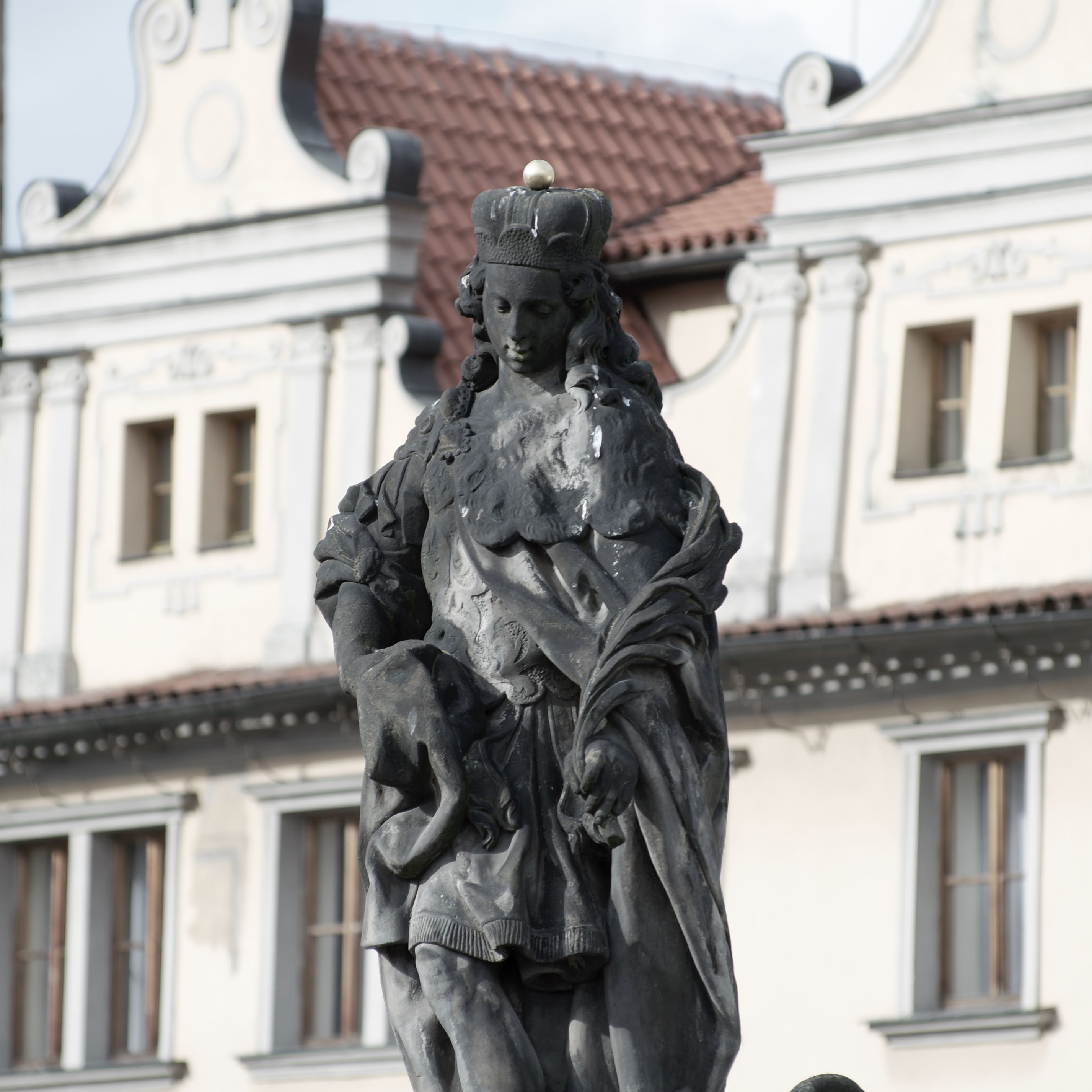 Sculpture of Saint Vitus on Charles Bridge